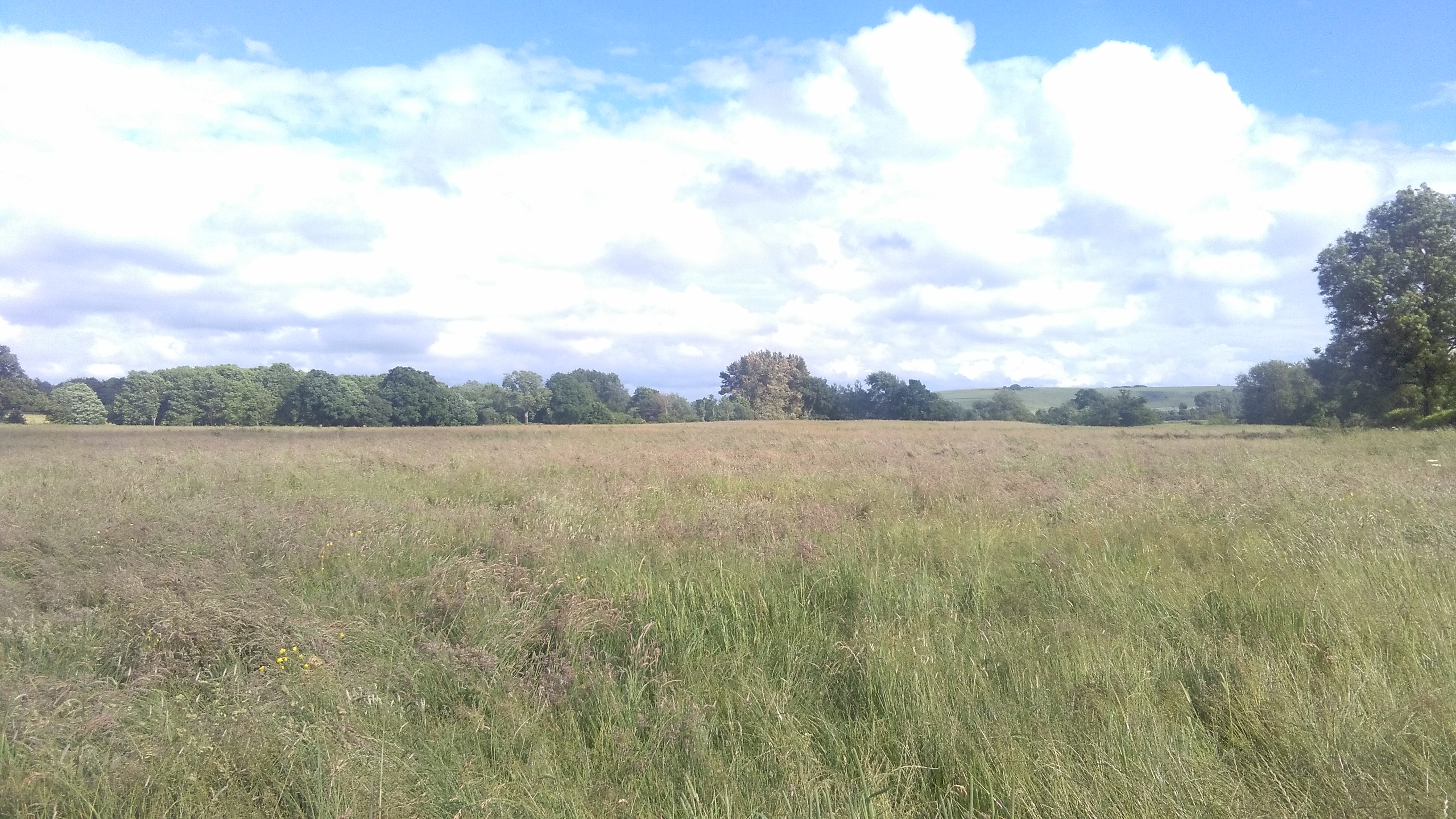 Approximate centre of Marden Henge, looking south (or southeast) in the direction of the River Avon.